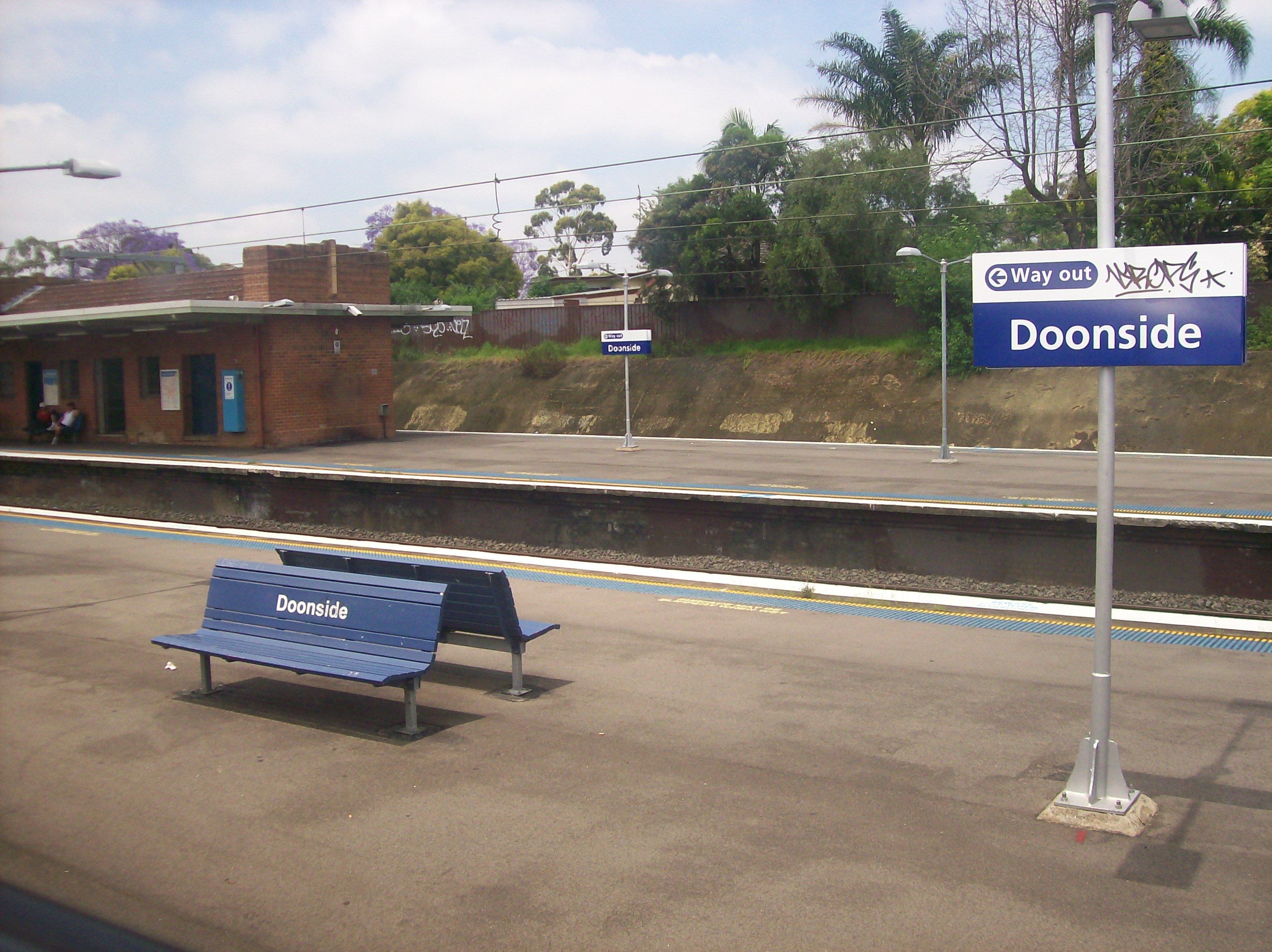 Doonside station platforms